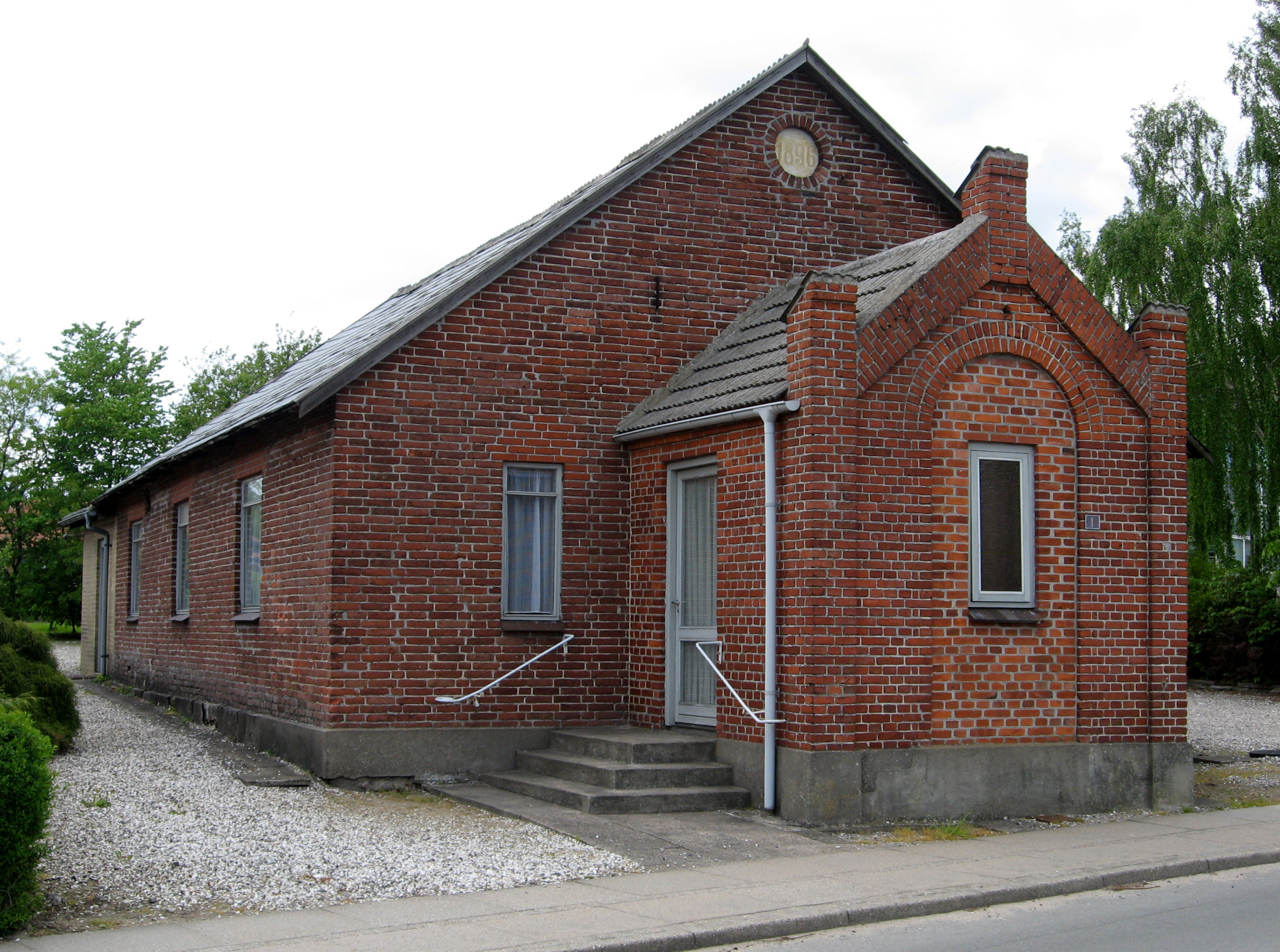 Missionshus (mission hall) in Ørum Djurs, a town/village on Djursland in Denmark.